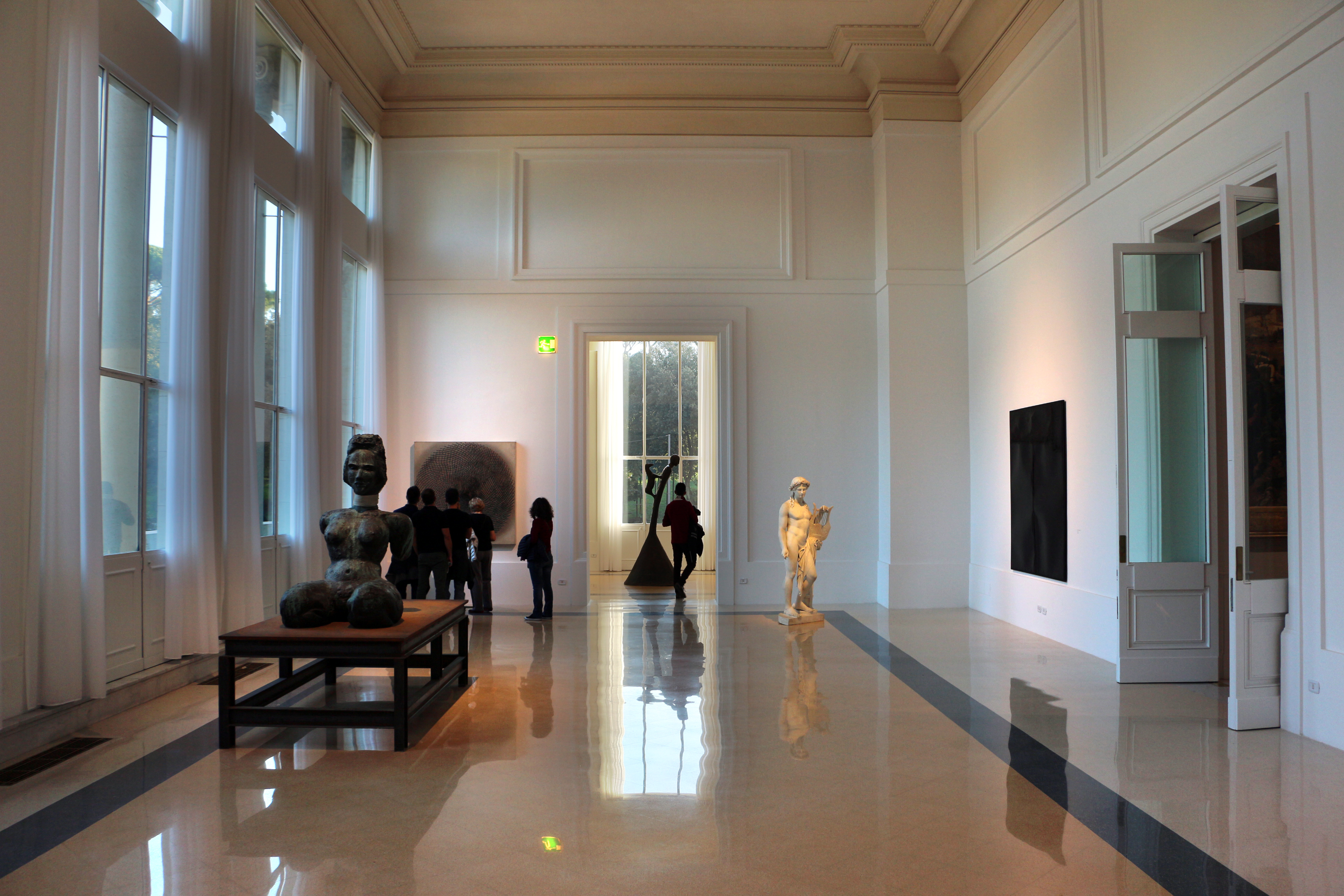 Galleria nazionale d'arte moderna (Rome)